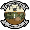 Unit logo of Marine Wing Support Squadron 272, approved through Headquarters, U.S. Marine Corps, July 2012.